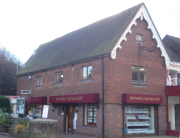 39 High Street, Crawley, West Sussex, England: a timber-framed 16th-century house which was redesigned in the 19th century. Now a shop. Listed at Grade II by English Heritage (IoE code 363345)